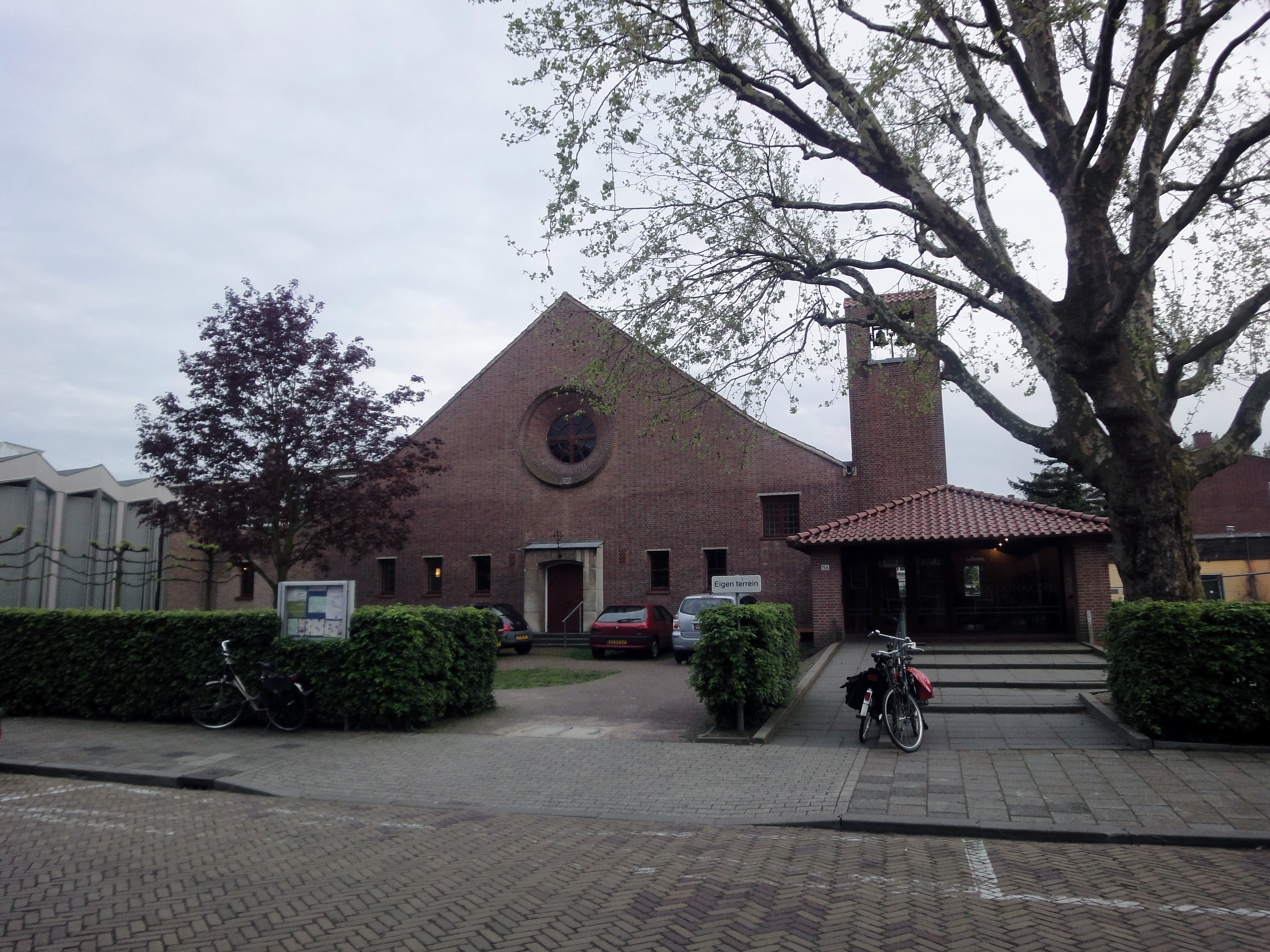 Maranathakerk, The Hague